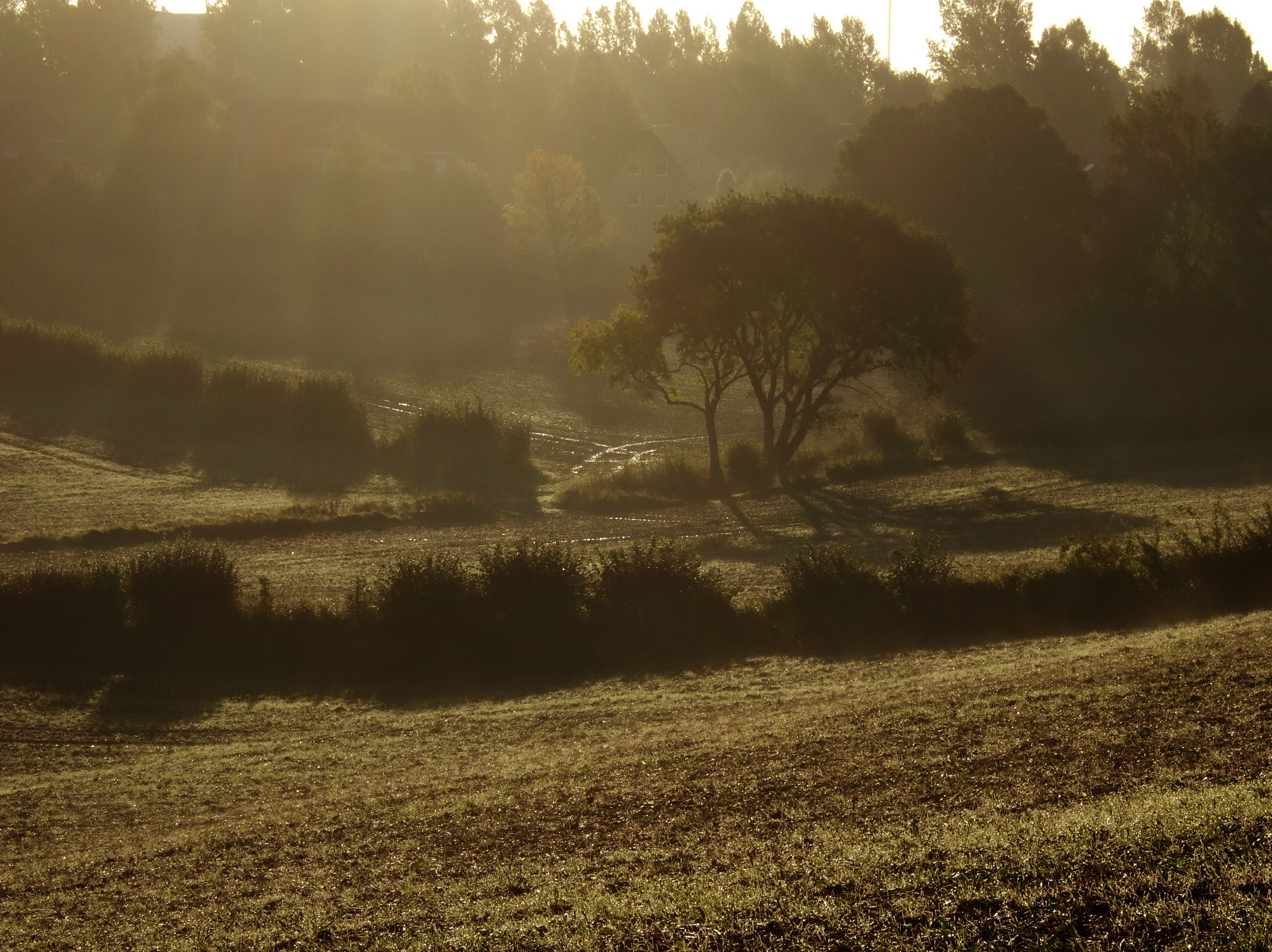 Autumn morning in Osbektal, near Flensburg, Germany